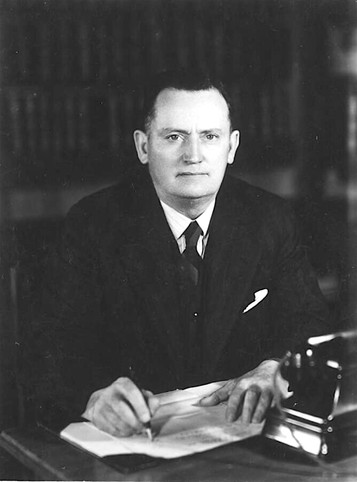 Frank Forde as Minister for the Army in 1941